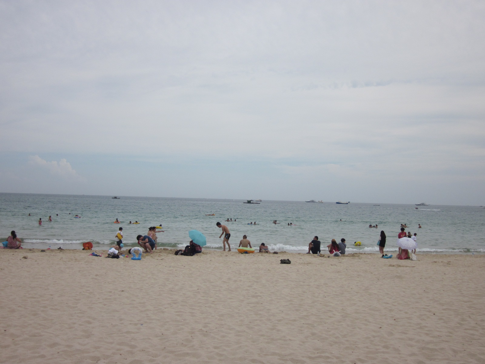 Dadonghai